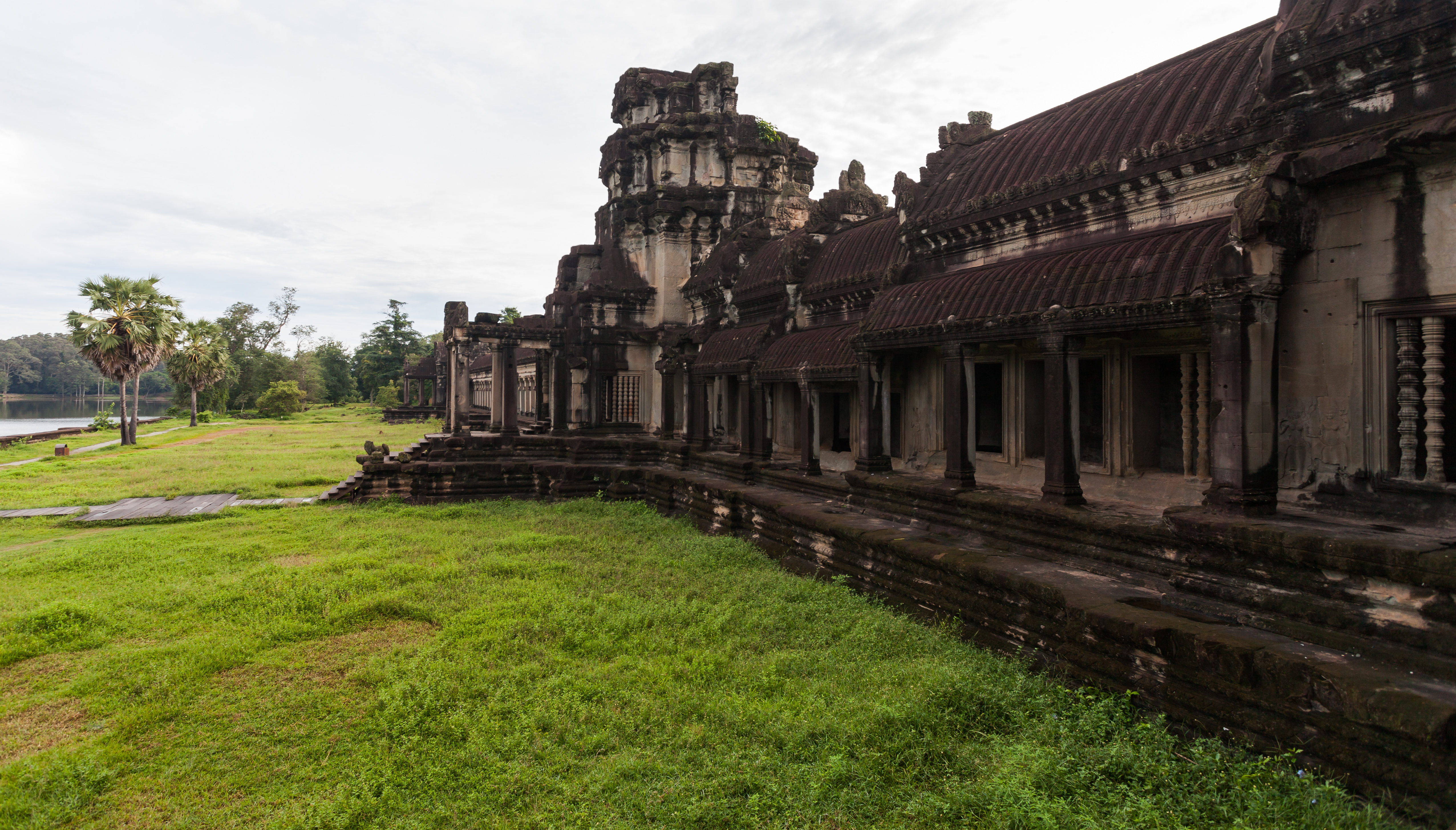 Angkor Wat, Cambodia